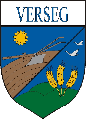 Coat of arms of Verseg, Hungary